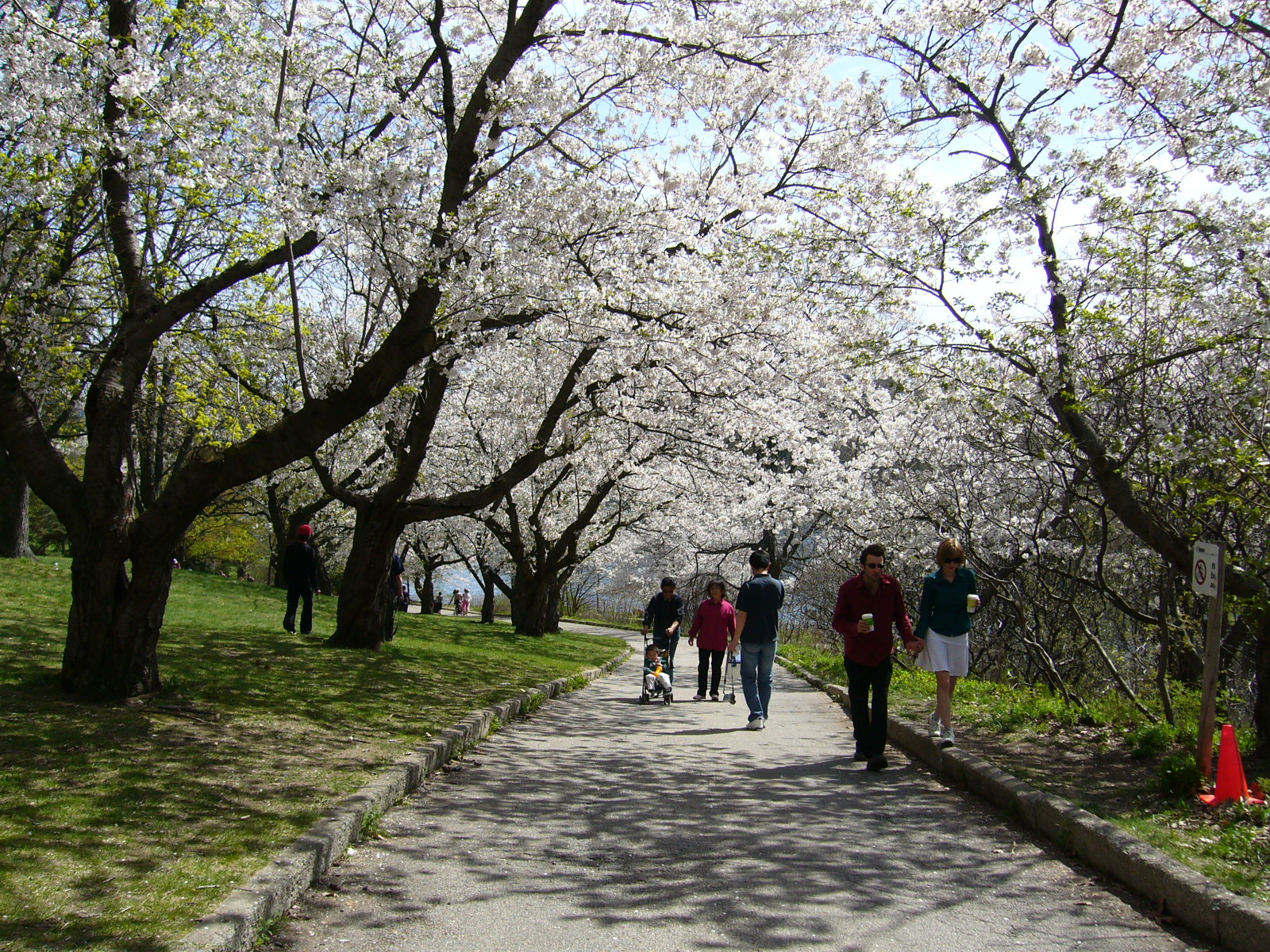 Late spring scene in High Park, in Toronto's west end.